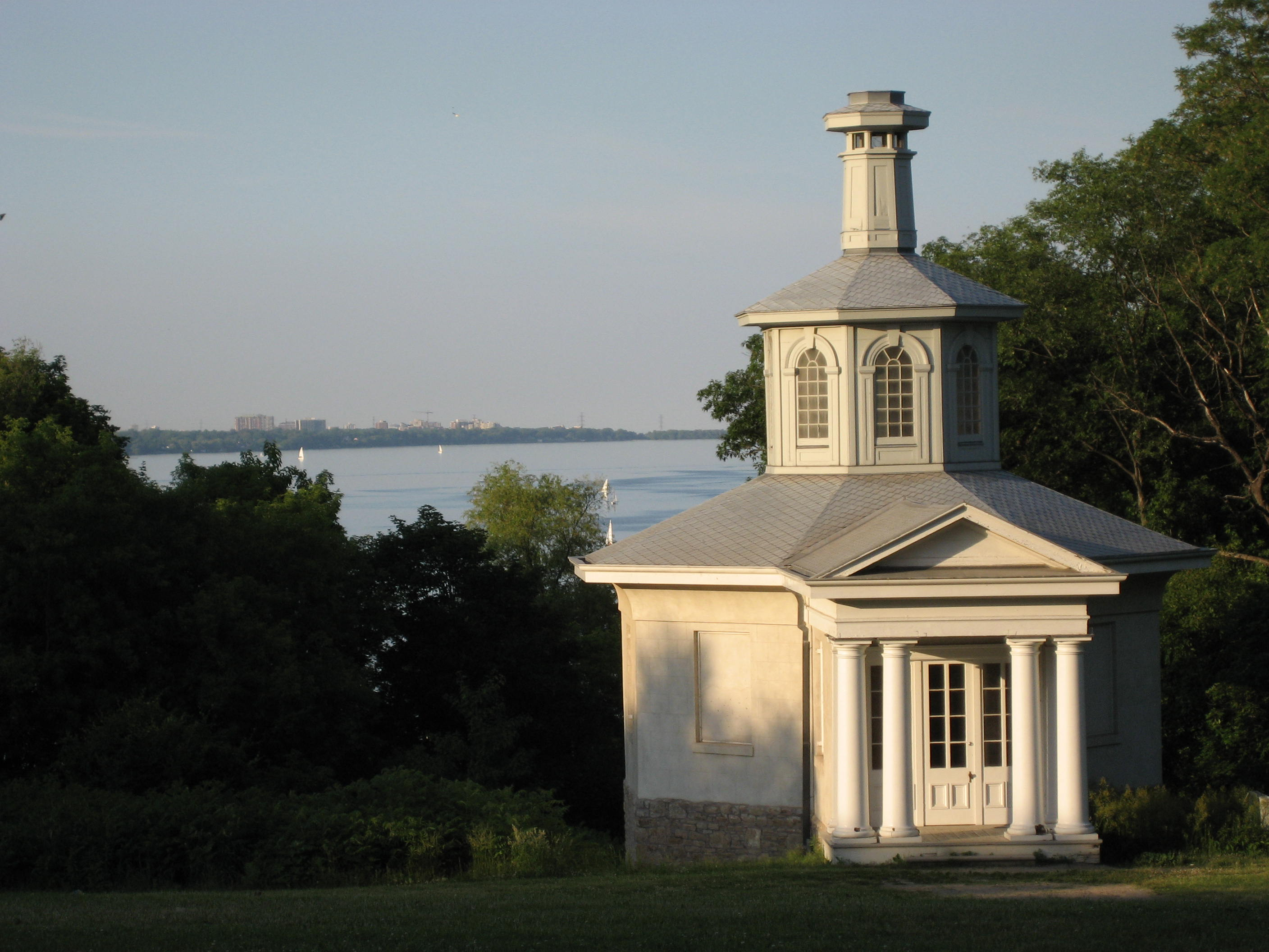 Dundurn Park, downtown Hamilton, Ontario